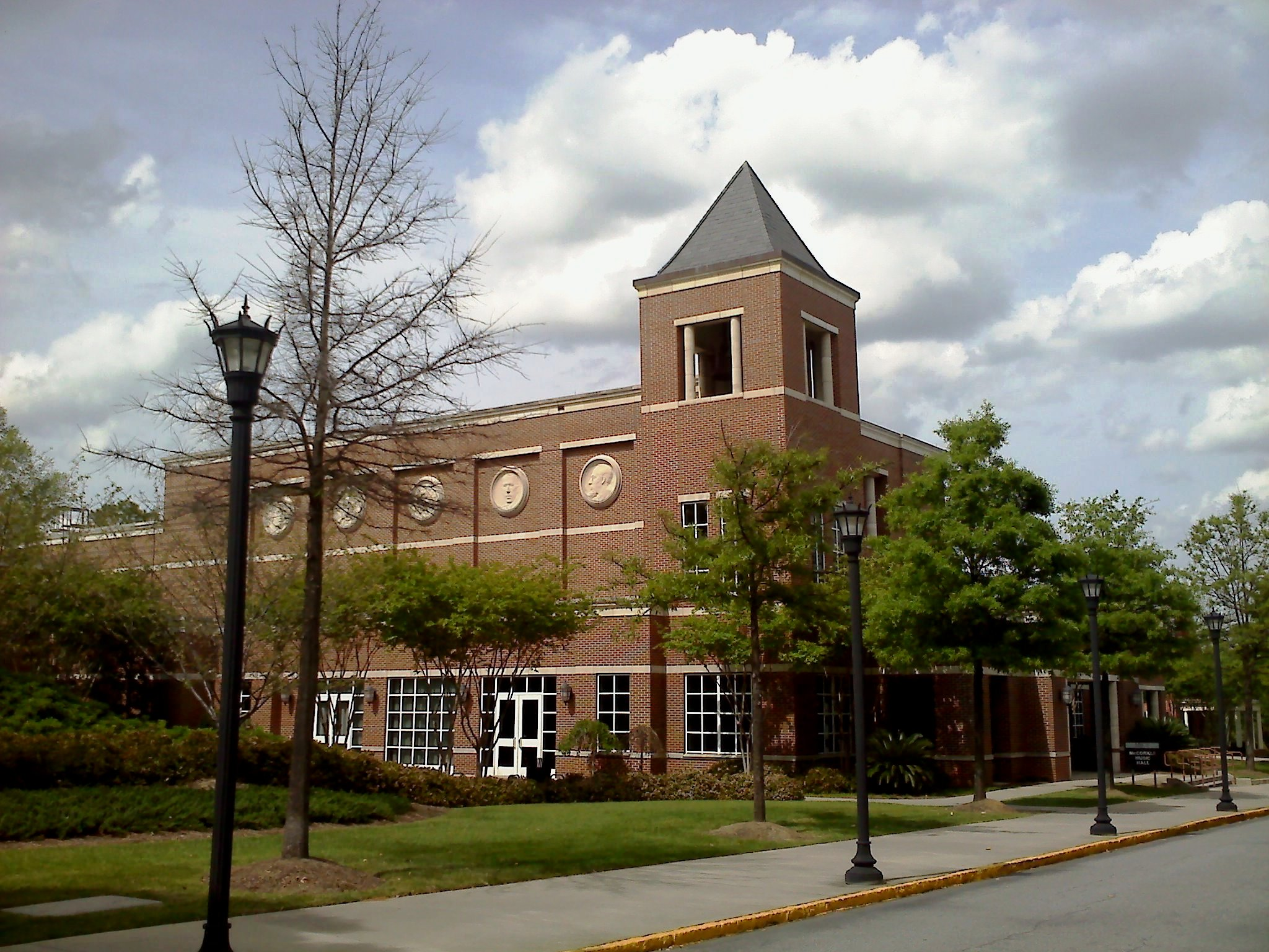 Mercer University, Townsend School of Music is housed in the Allan and Rosemary McCorkle Music Building in Macon, Georgia, United States.